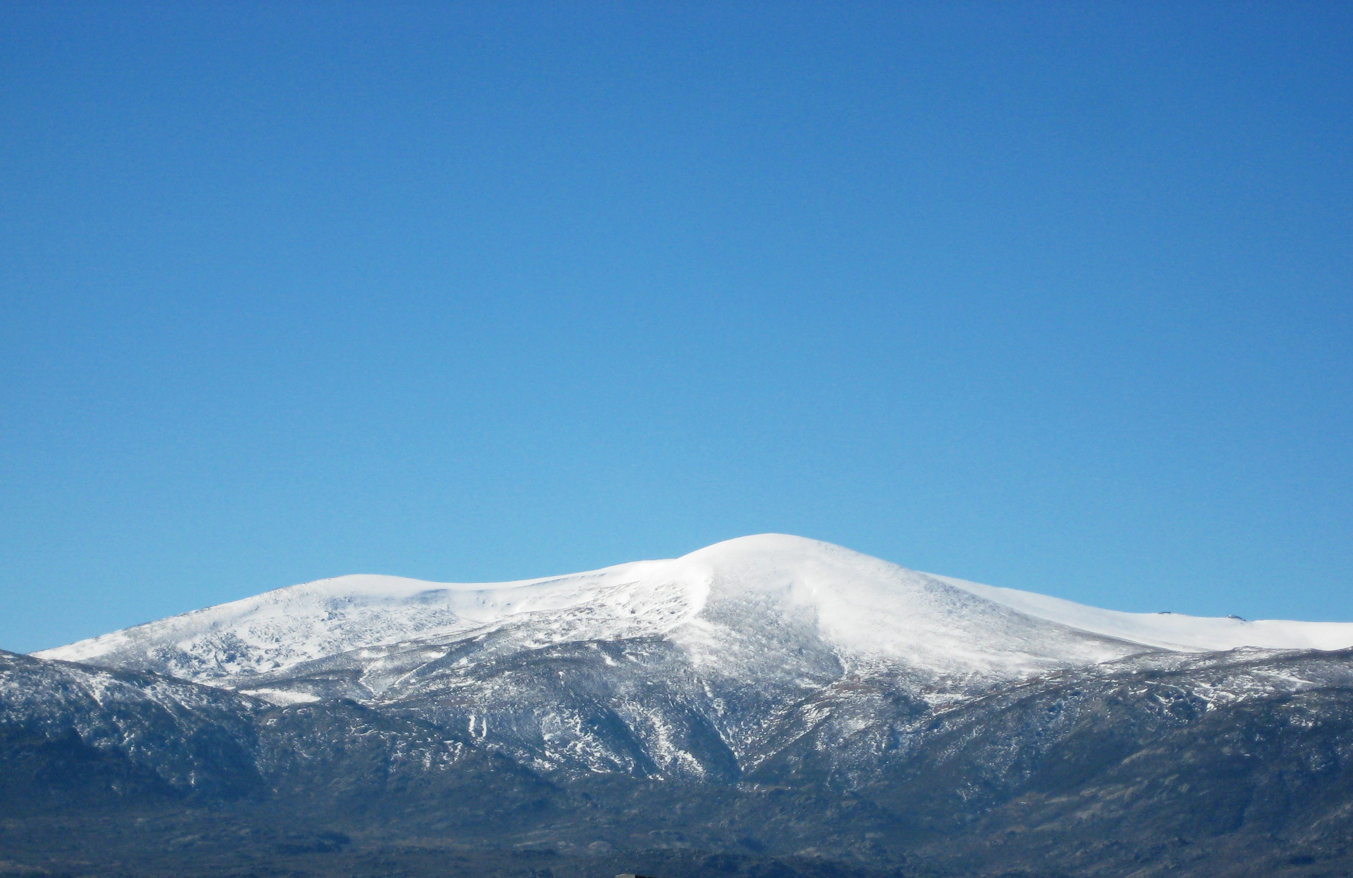 LA SERROTA (AVILA, ESPAÑA). This is a photography of a Site of Community Importance in Spain with the ID: ES4110034. Natura2000 entry, EEA entry